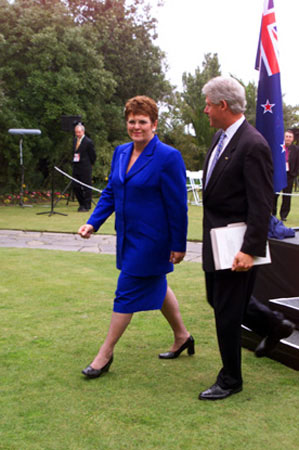 United States President Bill Clinton meets with Prime Minister of New Zealand Jenny Shipley. The two leaders step down from the podium following their press conference. September 15, 1999 photo by Sharon Farmer